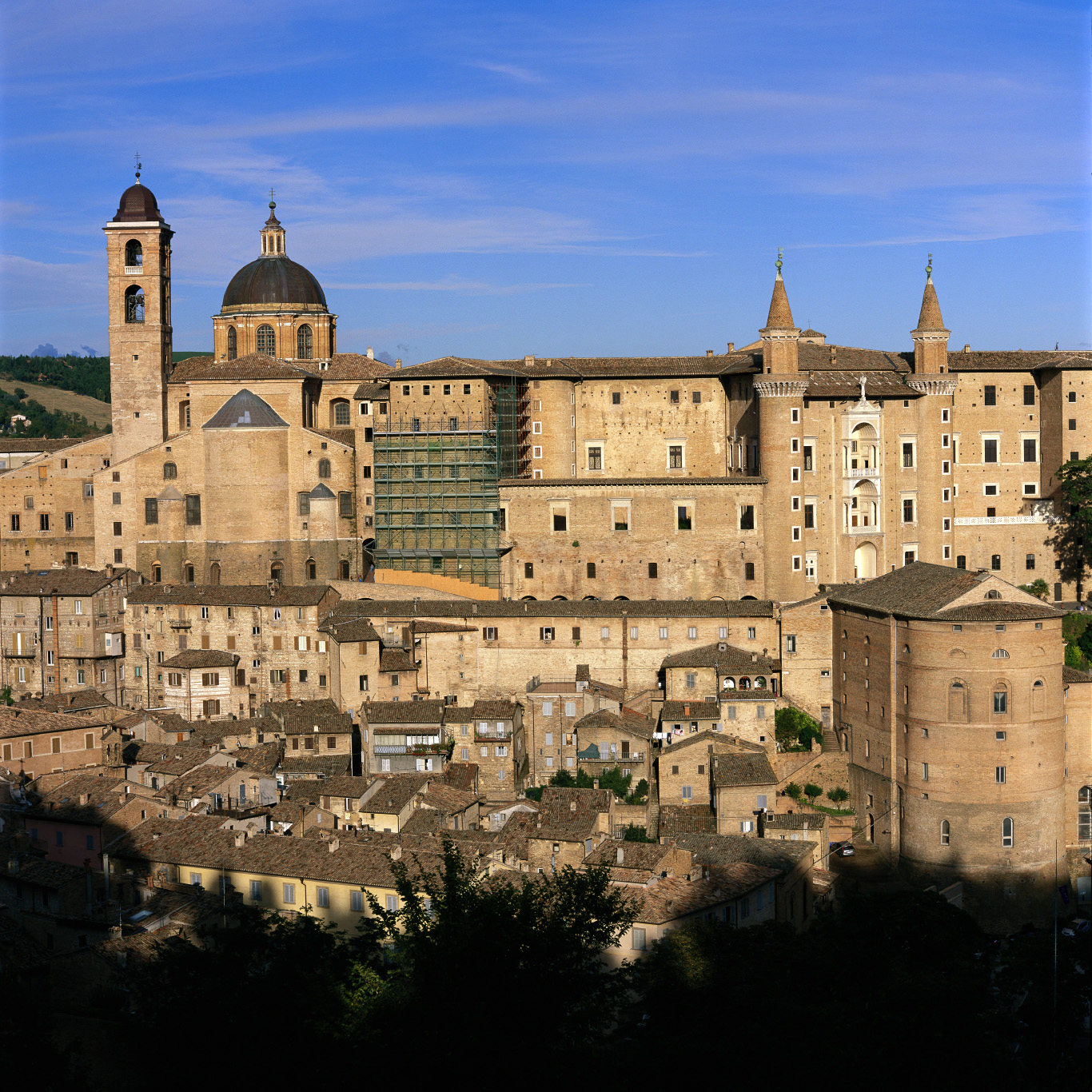 Historic Centre of Urbino (Italy)